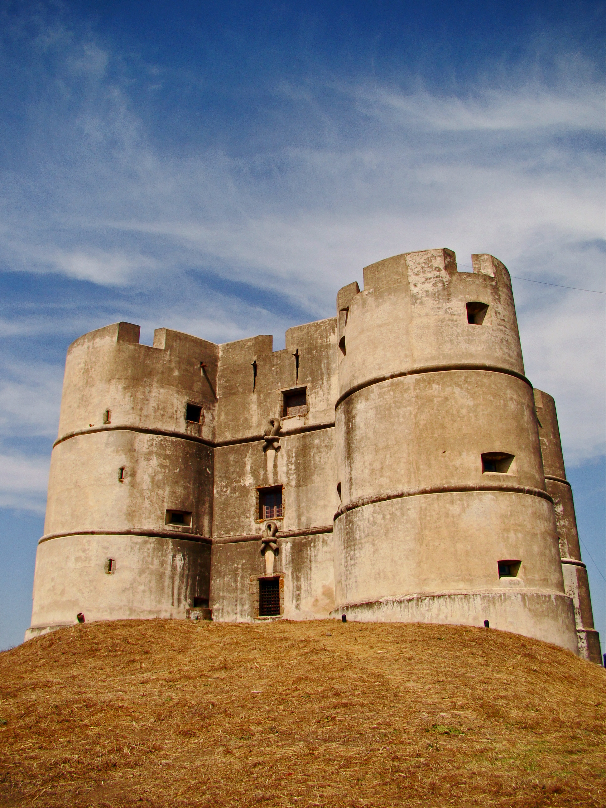 This file was uploaded for Wiki Loves Monuments in Portugal with the unique identifier 70670.